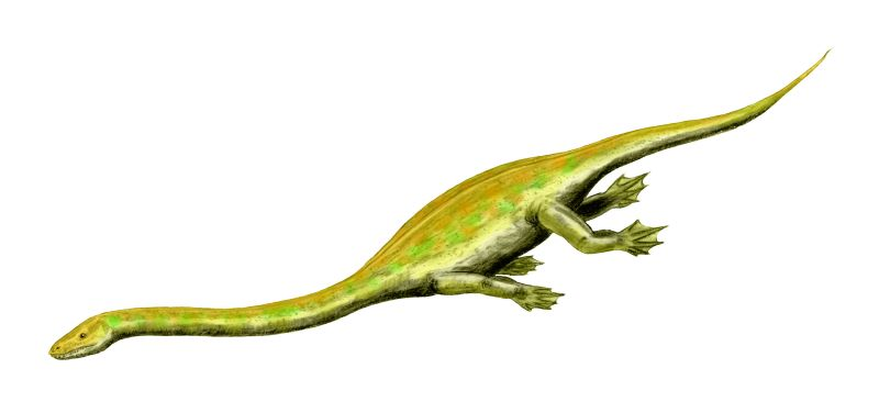 Dinocephalosaurus orientalis, a protorosaur from the Middle Triassic of China, pencil drawing